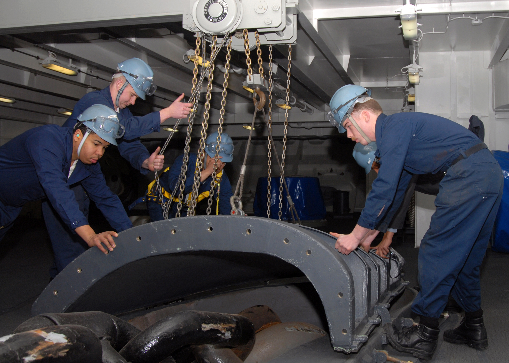 ATLANTIC OCEAN (Feb. 15, 2009) Boatswain's Mates prepare for an "anchor drop test" aboard the aircraft carrier USS George H.W. Bush (CVN 77) to check the operability of the ship's anchor while the ship is conducting builder's sea trials. (U.S. Navy photo by Mass Communication Specialist 3rd Class Kyle P. Malloy/Released)